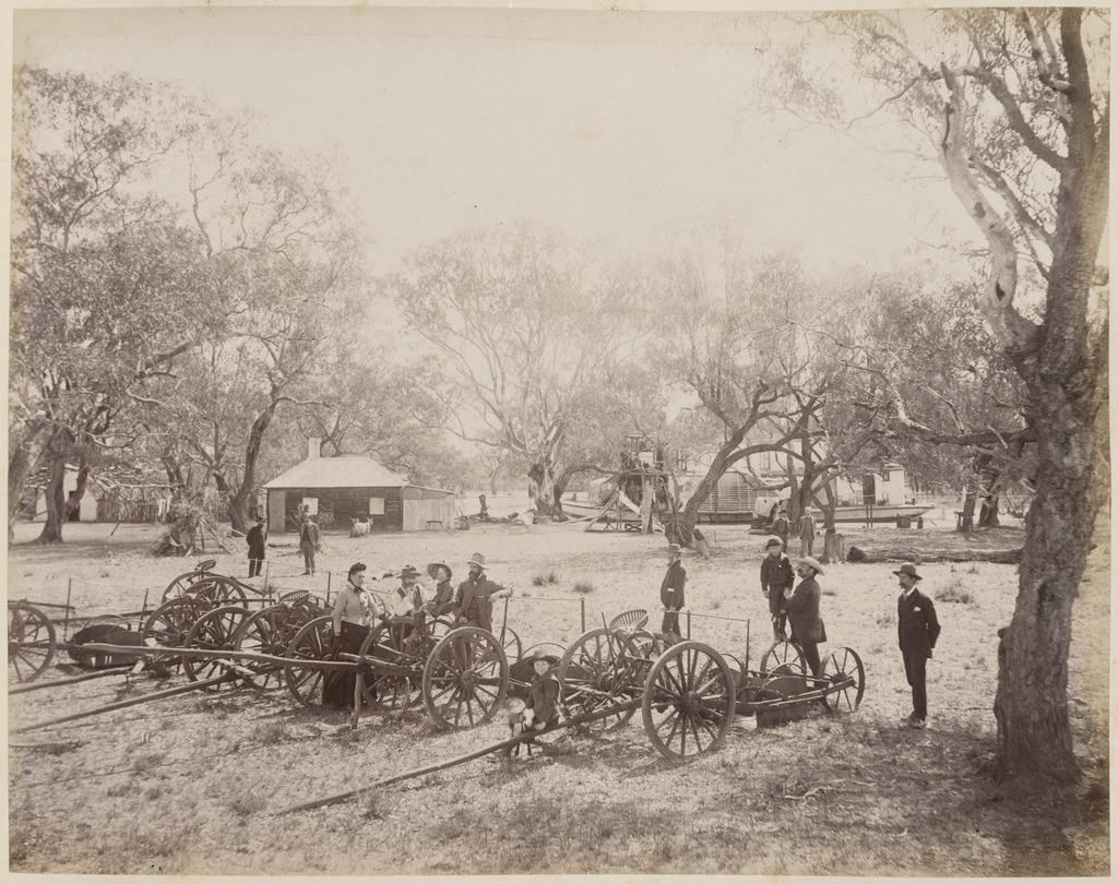 Bayliss, Charles, 1850-1897 Title devised by cataloguer based on inscription beneath photograph.; In: Views of scenery on the Darling & Lower Murray during the flood of 1886.; Inscriptions: "Flooded out!" A Homestead Lease on "Toorale" Station, Darling River"--On label beneath photograph.; "C. Bayliss, photo, Sydney"--Photographer's blind stamp lower left corner.; Also available in electronic version via the Internet at: Persistent URL .au/nla.pic-vn3968169